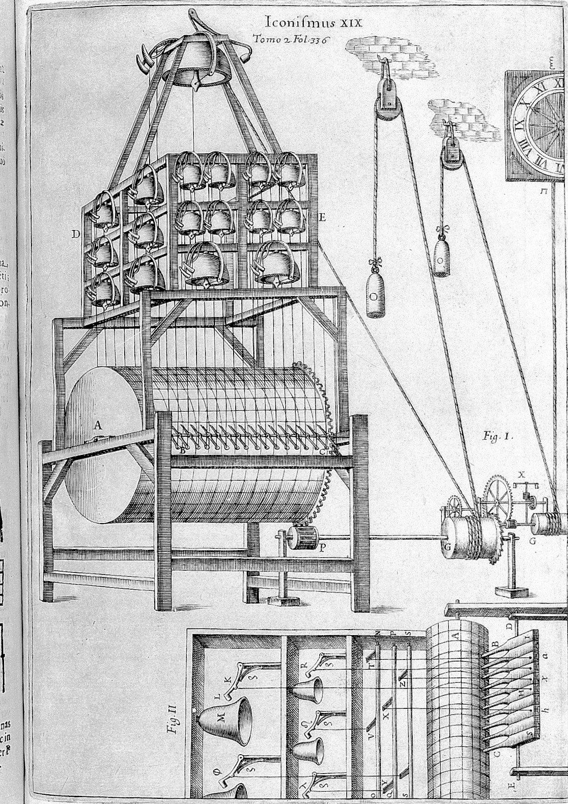 Icon: 'Carillon' Rare Books